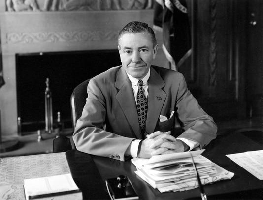 Portrait of Attorney General James P. McGranery. Inscribed outside the border of the photograph: "To the Hon. Stephen A. Mitchell With the admiration and respect of James P. McGranery."